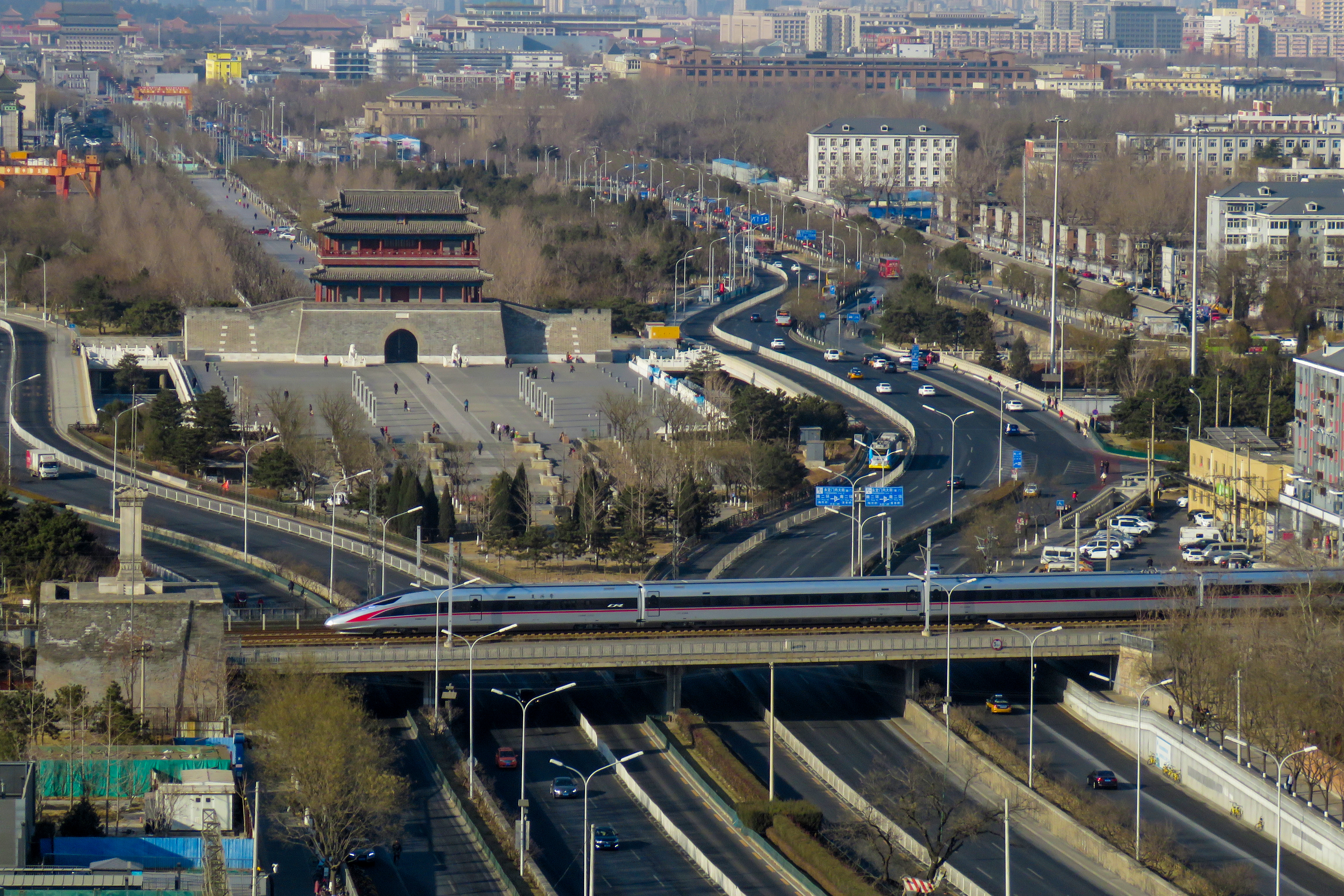 C2060 from Tianjin. Well, the second CR400 I caught today.